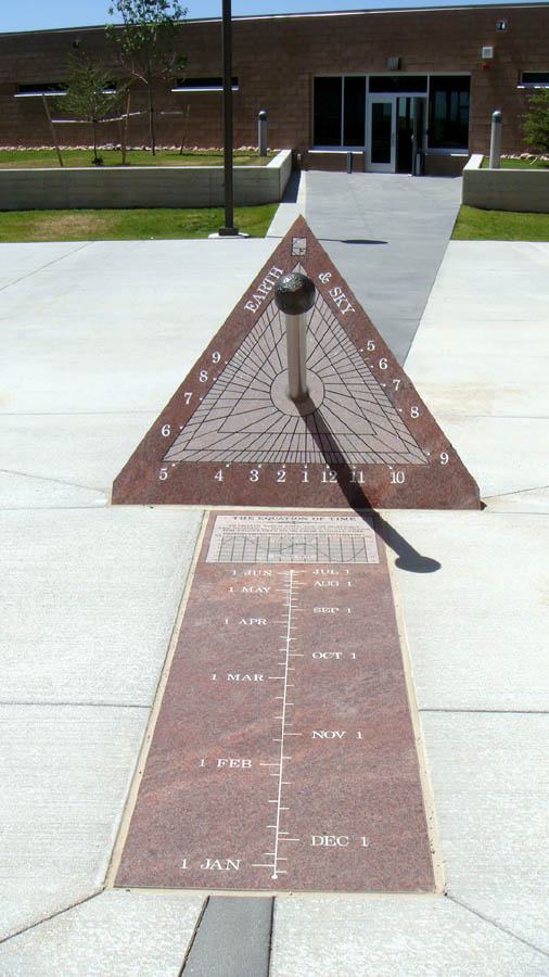 This is a granite equatorial sundial by John Carmichael at Sundial Sculptures located a Discovery Canyon School in Colorado Springs.